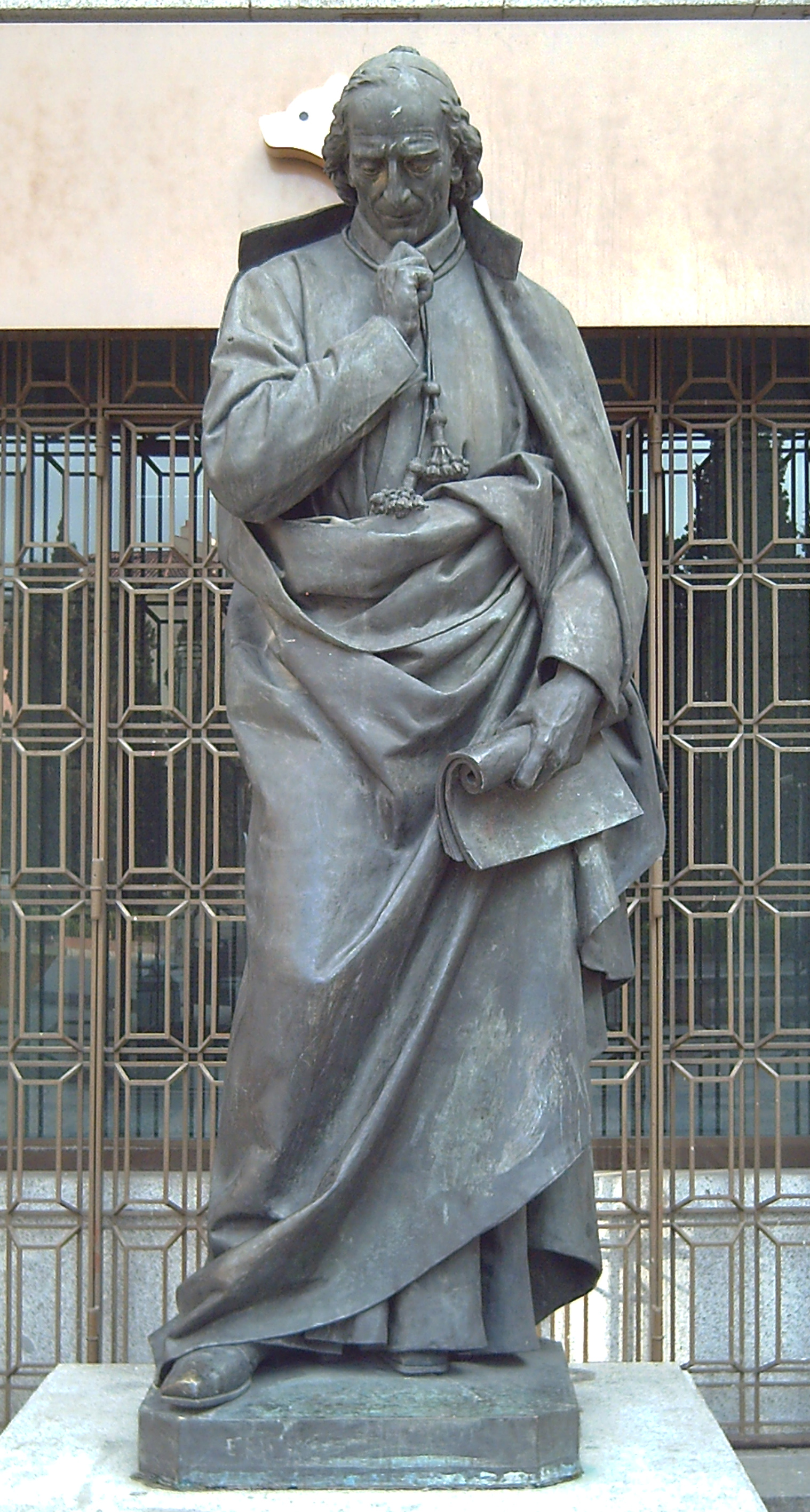 Bronze statue of Francisco Piquer (1666–1739) at Plaza de las Descalzas (square) in Madrid (Spain). Made in 1889 by sculptor José Alcoverro and inaugurated in 1892.